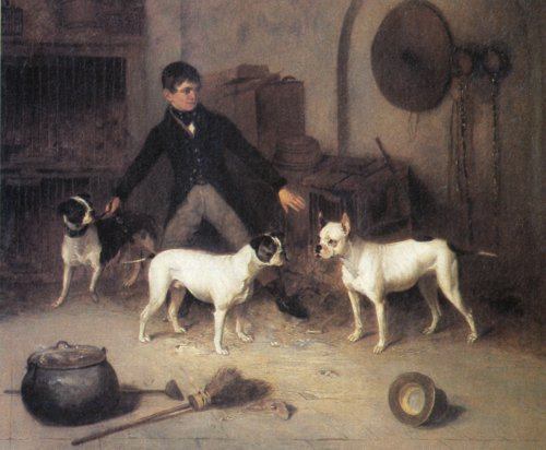 Jem Burns' Four Pets. The kennel boy, Jack Shepherd, and the Bulldogs: Duchess, Cribb and Ball. Old English Bulldogs. 1843.